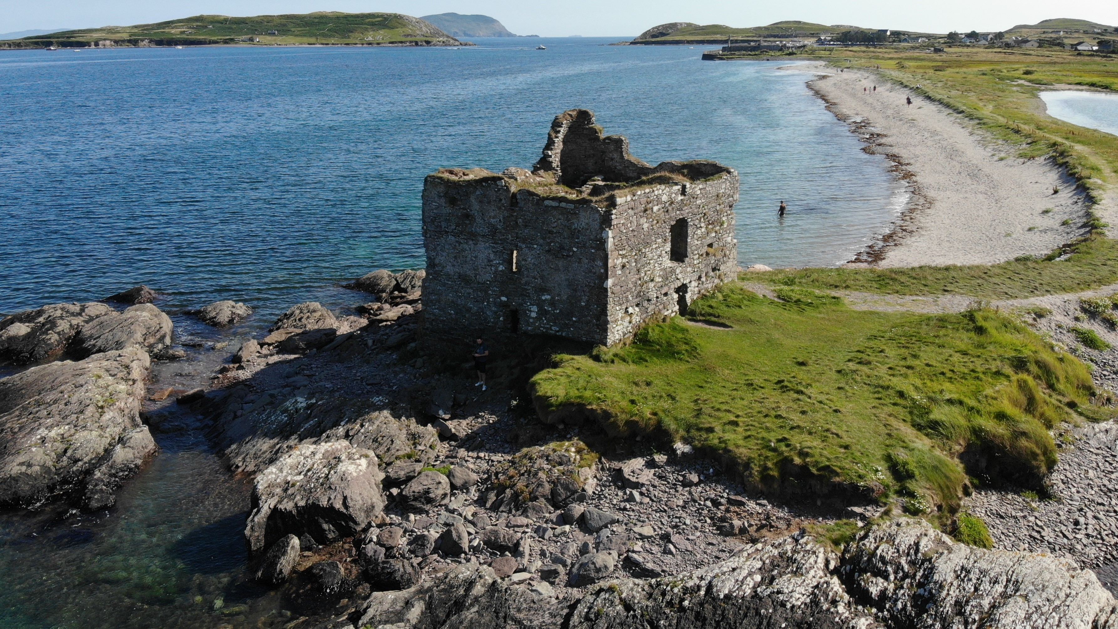 Aerial view of the ruins of Ballinskelligs Castle.